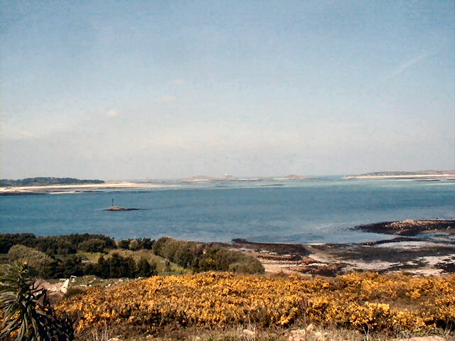 Looking over Crow Bar towards St Helen, Teal and the lighthouse on Round Island in the distance. St Martin's is on the right and Tresco on the left.